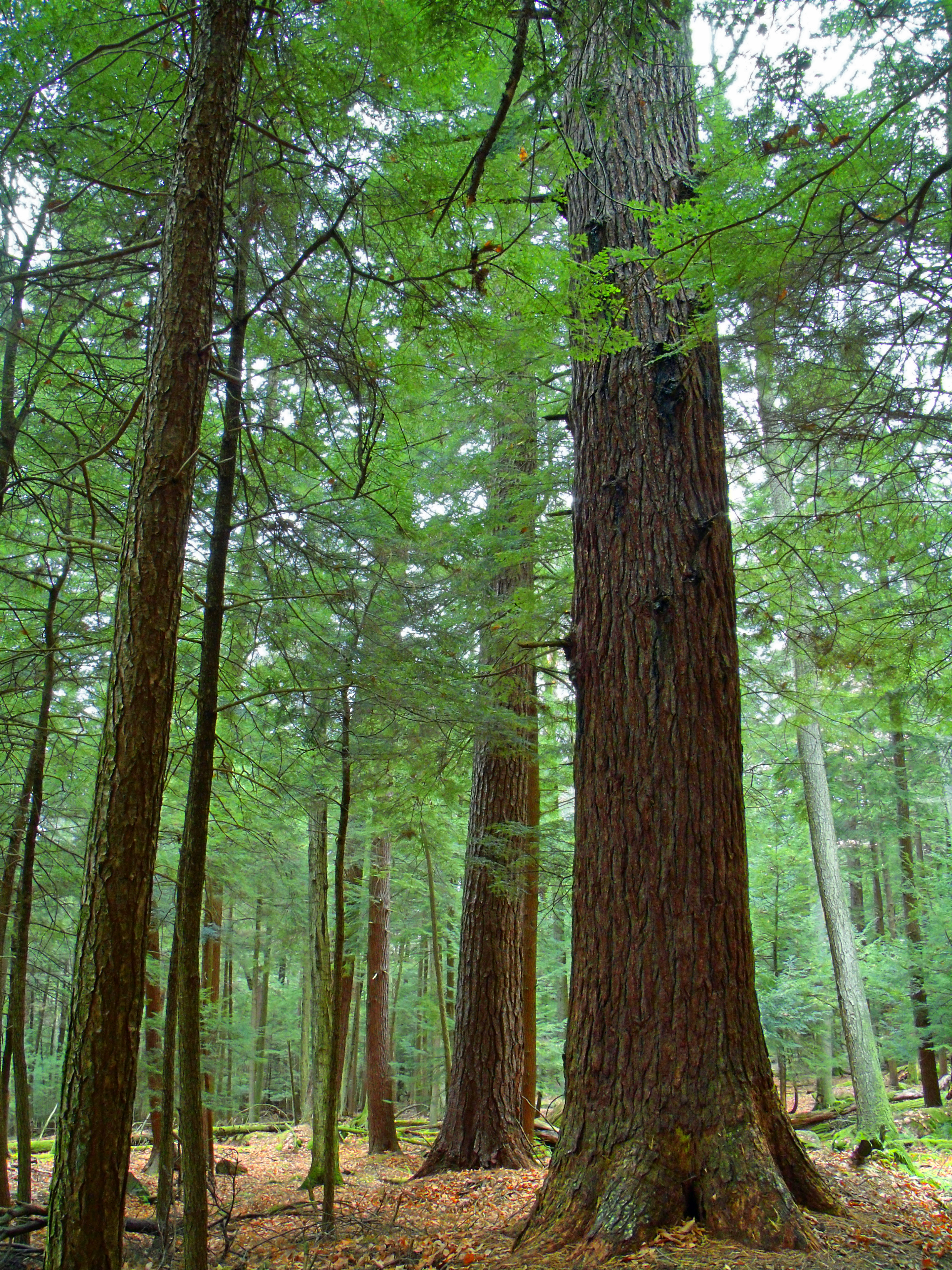 Old-growth hemlocks, Cook Forest State Park, Clarion and Forest Counties, as seen from the Joyce Kilmer Trail. The park protects a large tract of old-growth hemlocks, white pines, and northern hardwoods. The forest has been designated a national natural landmark.